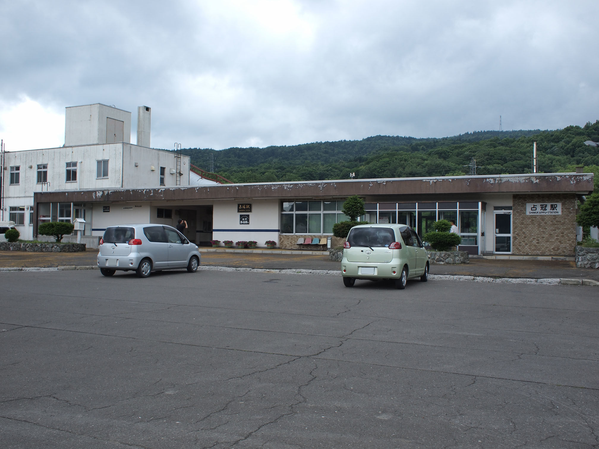 JR Hokkaido Shimukappu station, Shimukappu, Hokkaido, Japan